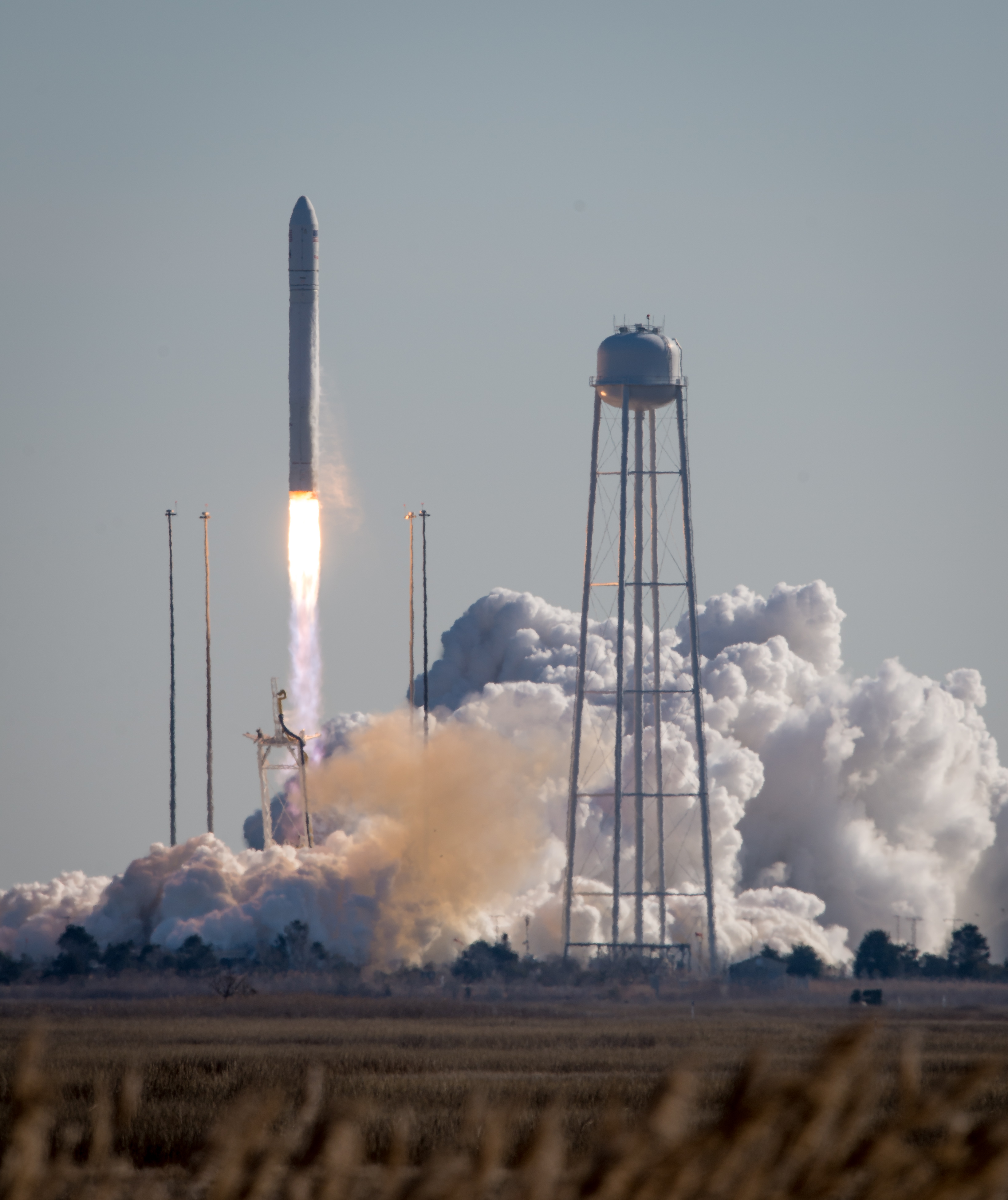 An Orbital Sciences Corporation Antares rocket is seen as it launches from Pad-0A at NASA's Wallops Flight Facility, Thursday, January 9, 2014, Wallops Island, VA. Antares is carrying the Cygnus spacecraft on a cargo resupply mission to the International Space Station. The Orbital-1 mission is Orbital Sciences' first contracted cargo delivery flight to the space station for NASA. Cygnus is carrying science experiments, crew provisions, spare parts and other hardware to the space station.